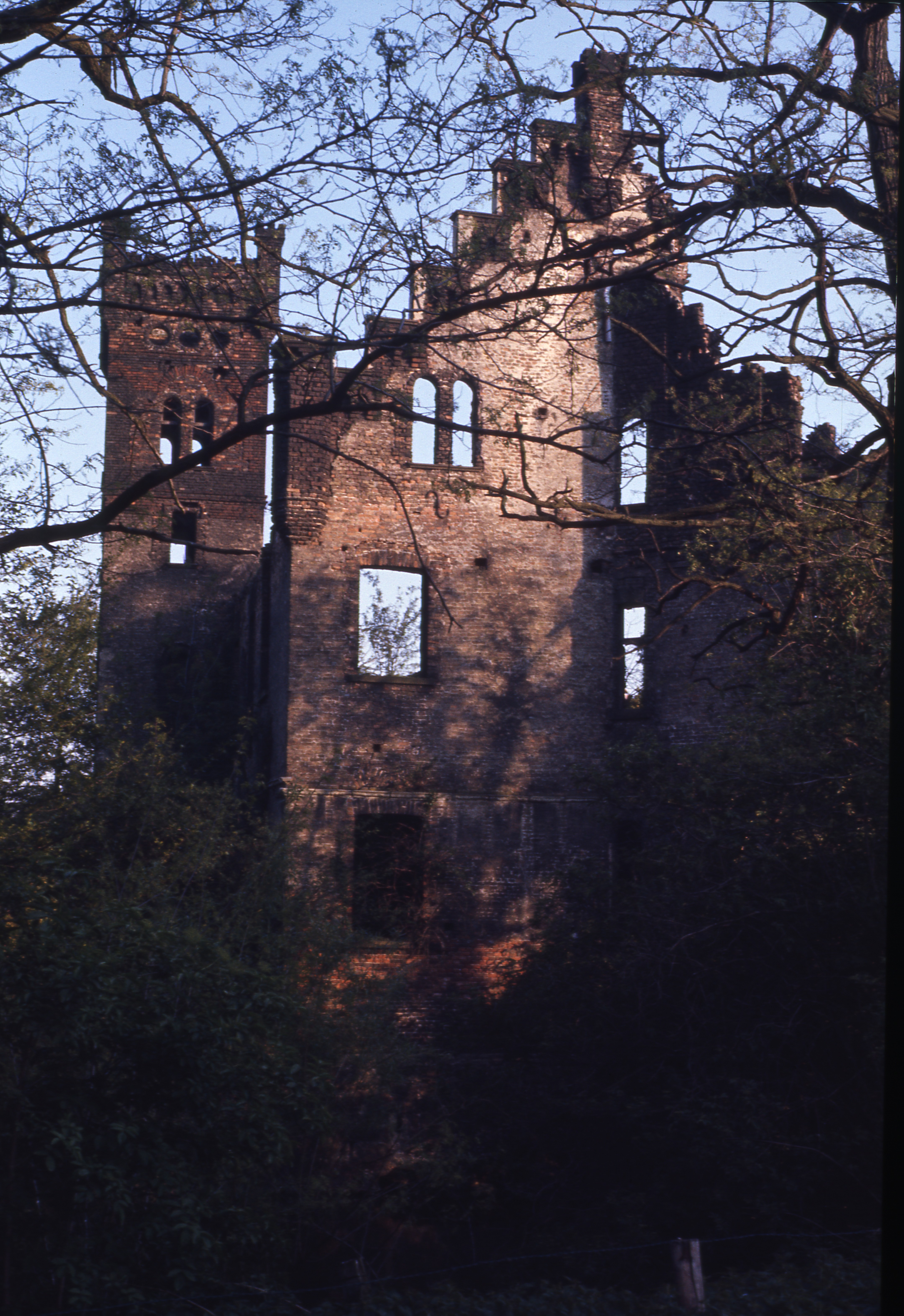 Haus Wilbring, late 1970s